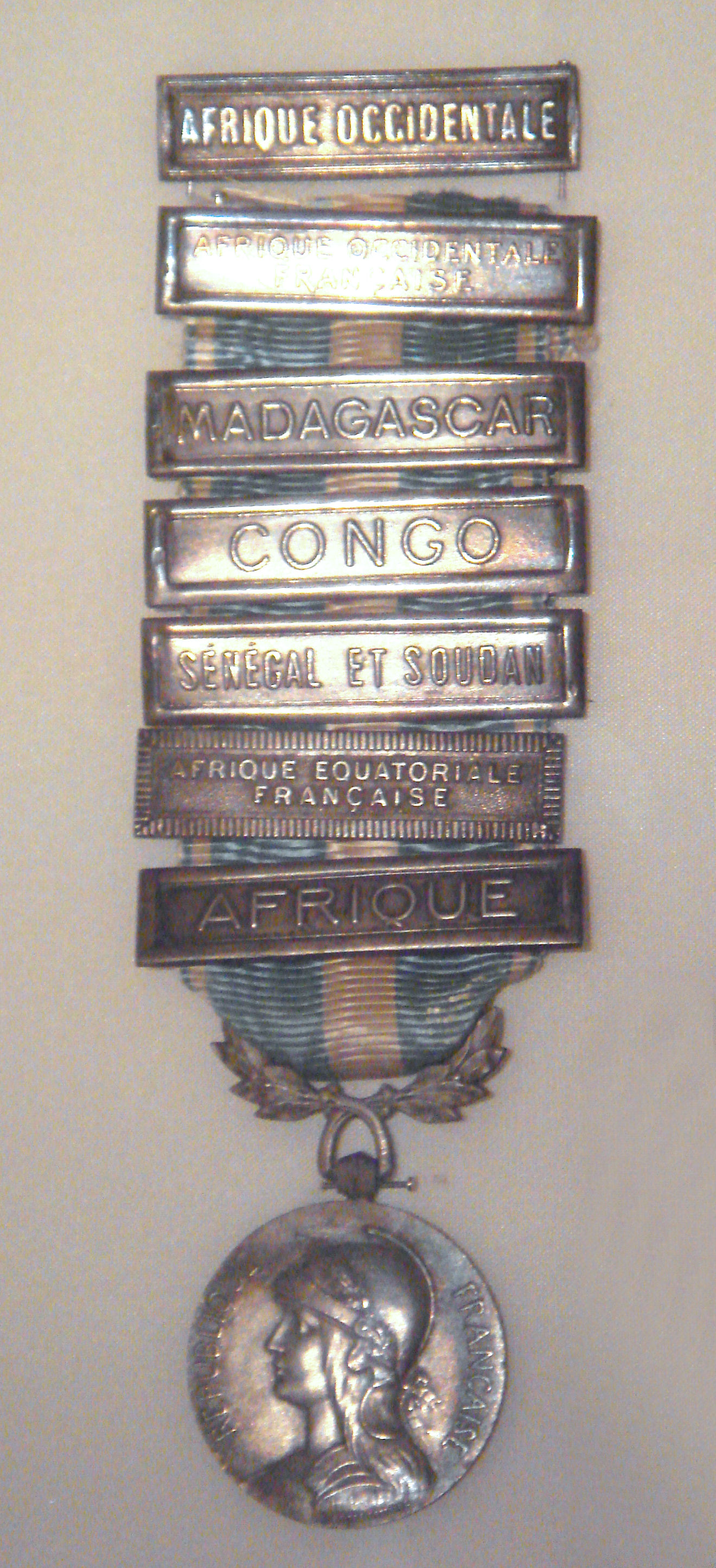 French_Medaille_Coloniale